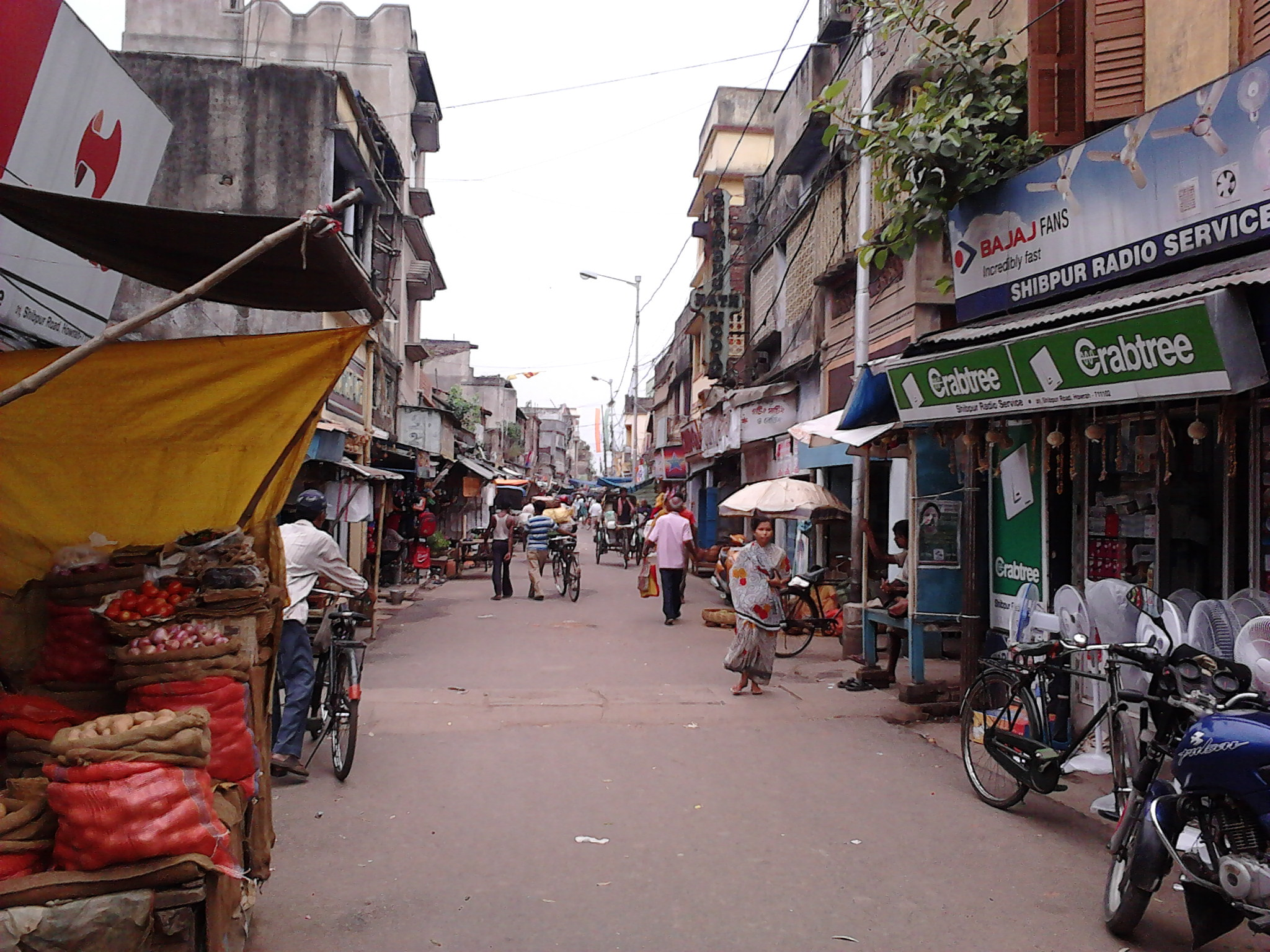 Sibpur (or Shipur) bazaar. It is a congested market place in Howrah, is almost shut down at 2 PM to 4 PM.